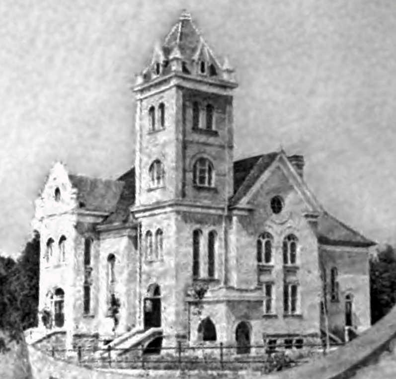 This picture of the Timpanogos Stake Tabernacle (located in Pleasant Grove, Utah) is a detail from a collage illustration published in The Western Monthly periodical in 1910.